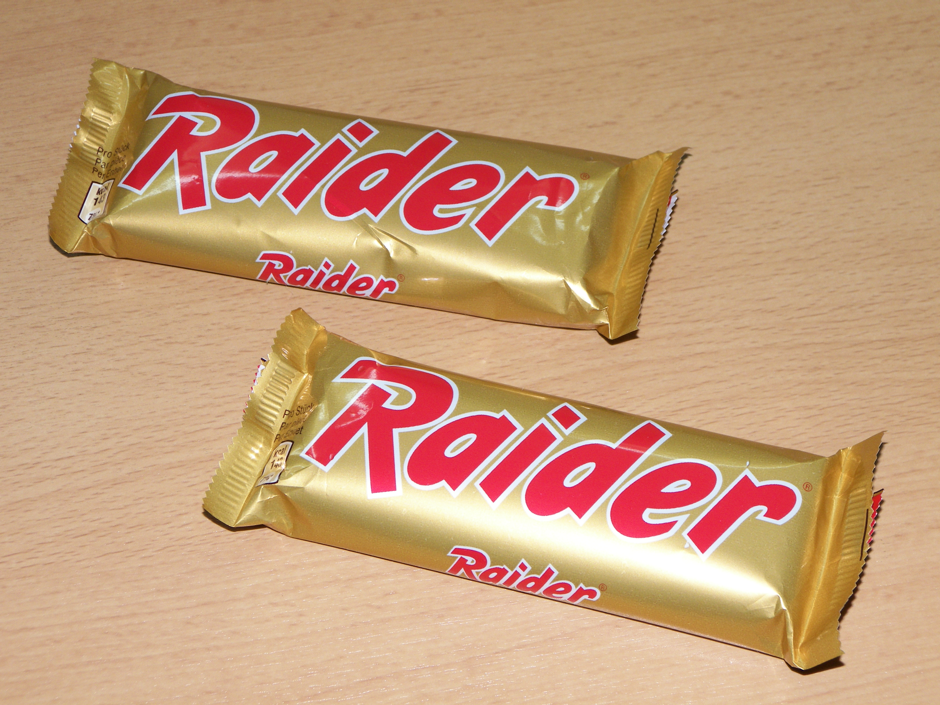 Top sides of two Raider bars bought October 19, 2009 from a vending machine in Berlin.